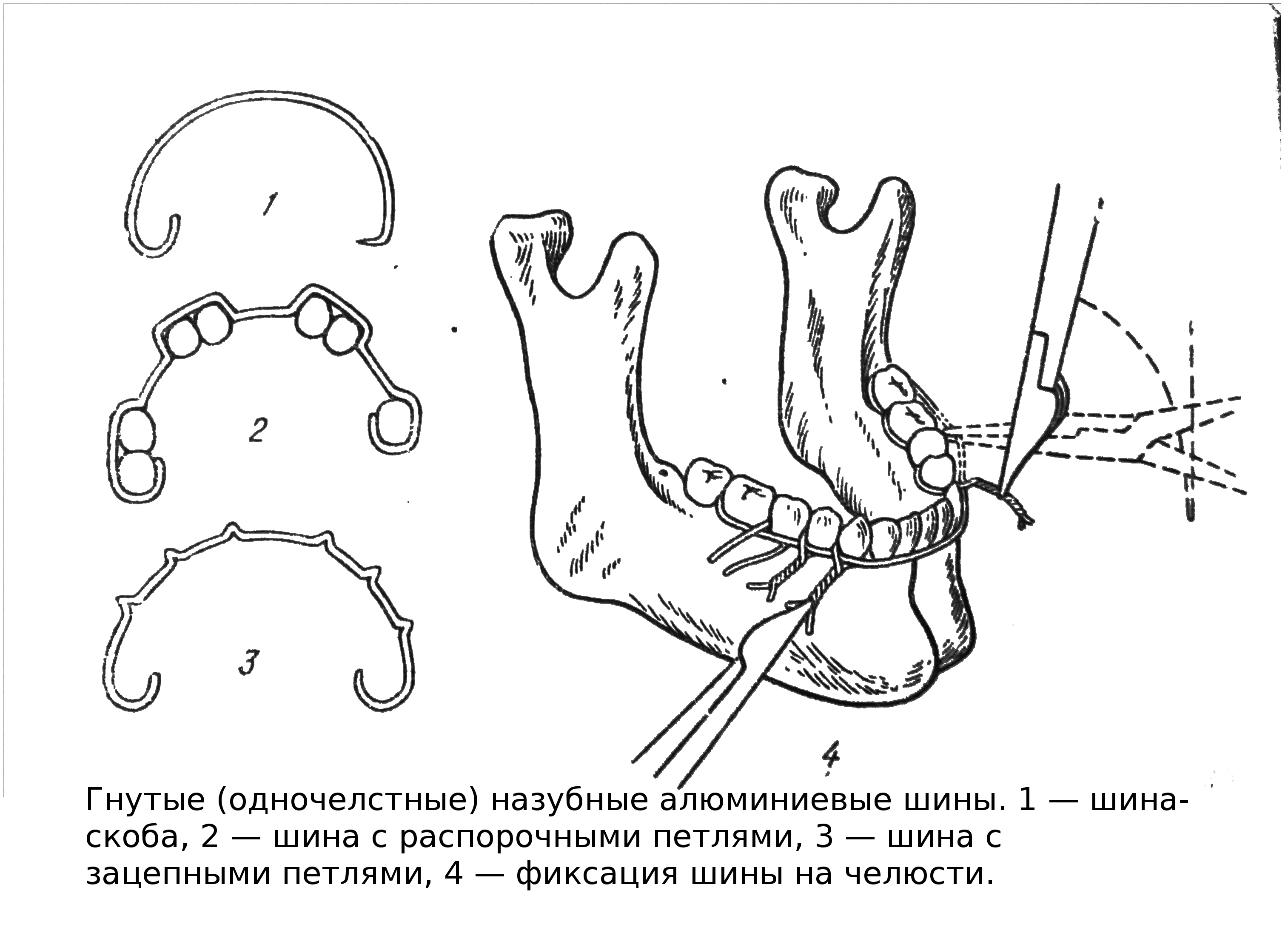 Tigerstedt's splint